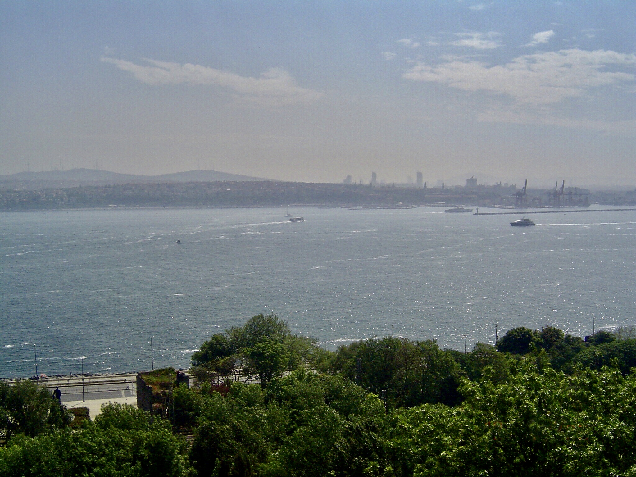 View of Bosphorus from Topkapi Palace terrace